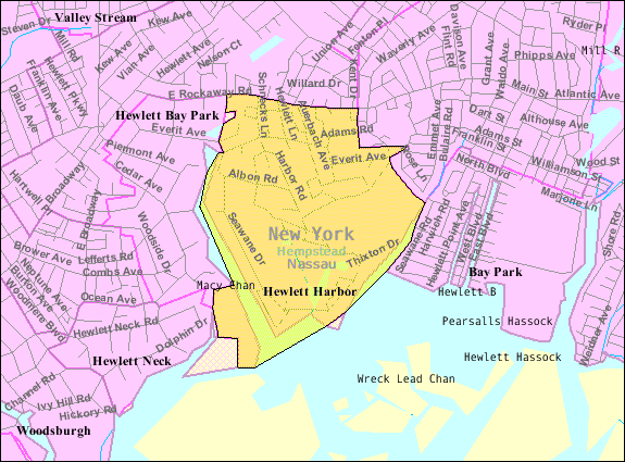 U.S. Census 2000 reference map for Hewlett Harbor, New York